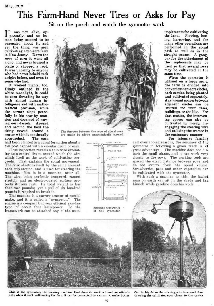 A step on the road of agricultural mechanization with a wire-guided gasoline-powered cultivator in 1919.